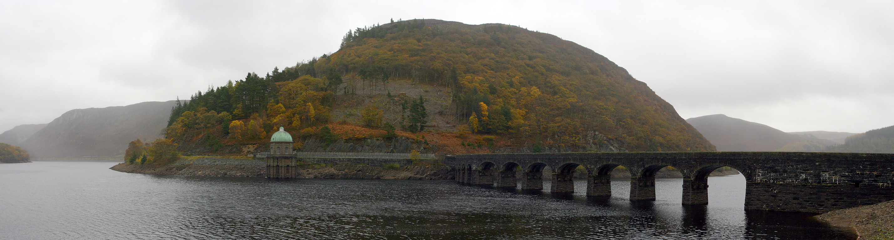 Panorama image of Garreg-Ddu submerged dam and Foel Tower. The dam is located in the Elan Valley Reserviors, Powys, Wales.